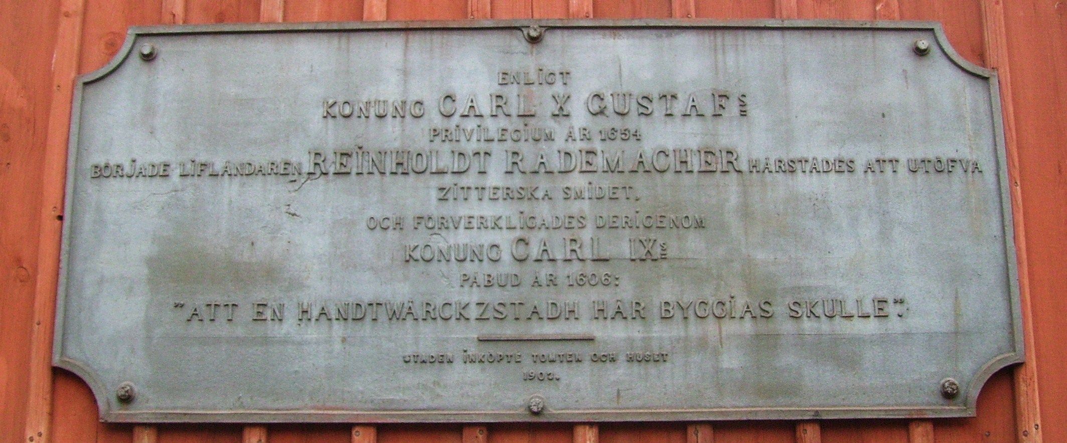 Picture of plaque—sign in Rademachersmedjorna in Eskilstuna